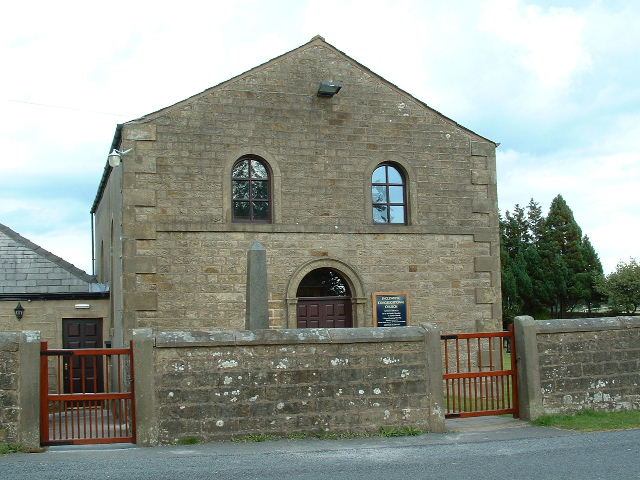 Inglewhite Chapel. south of village Green